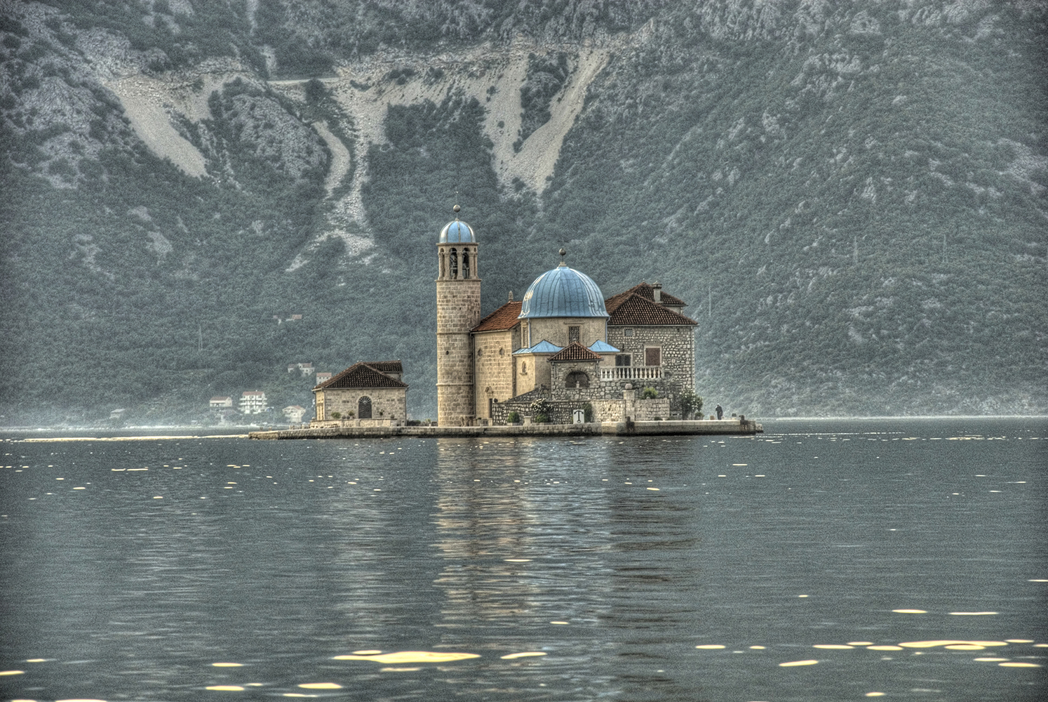 Our Lady of the Rocks